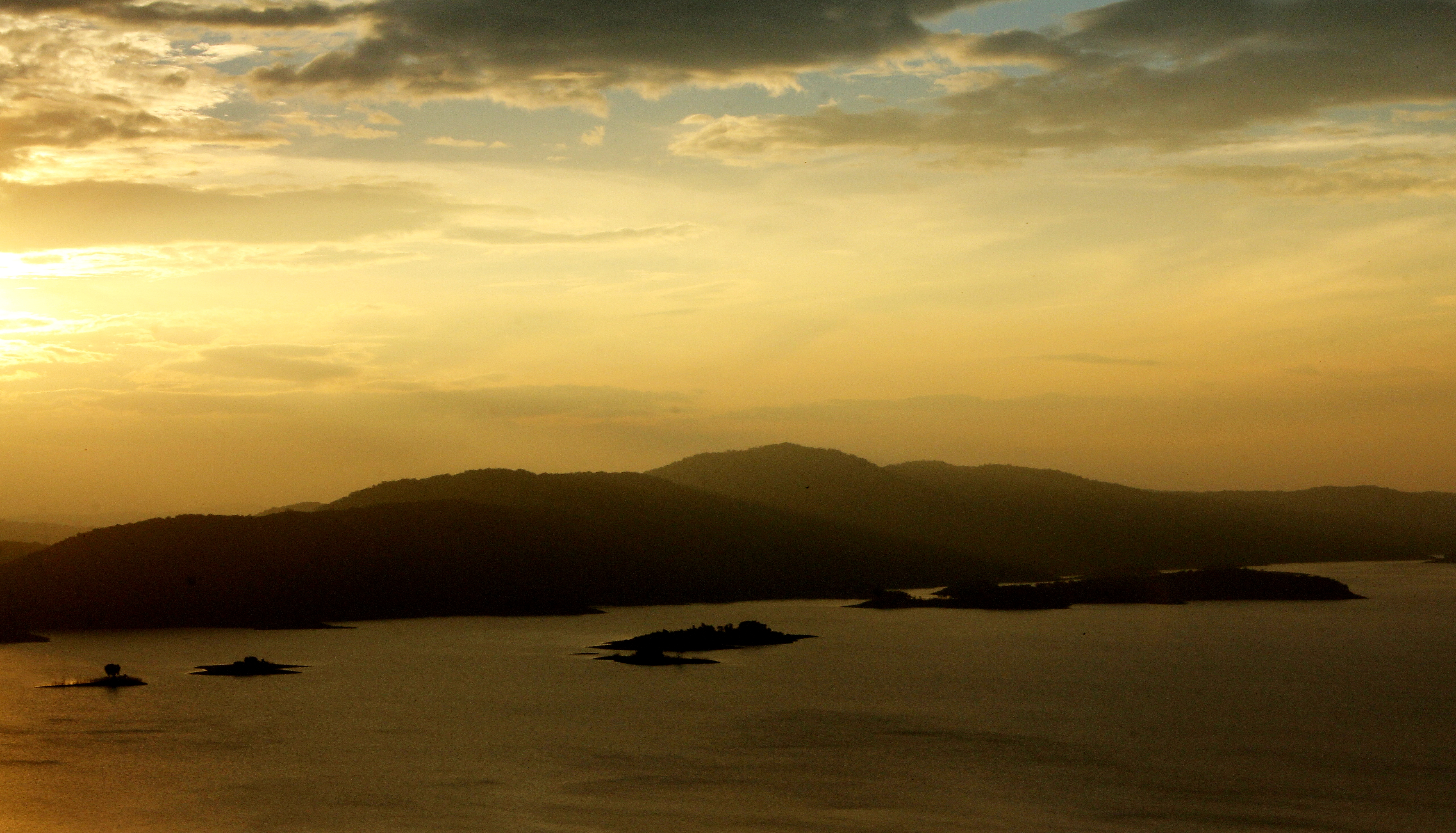 Sunset over the vast back waters of supa dam